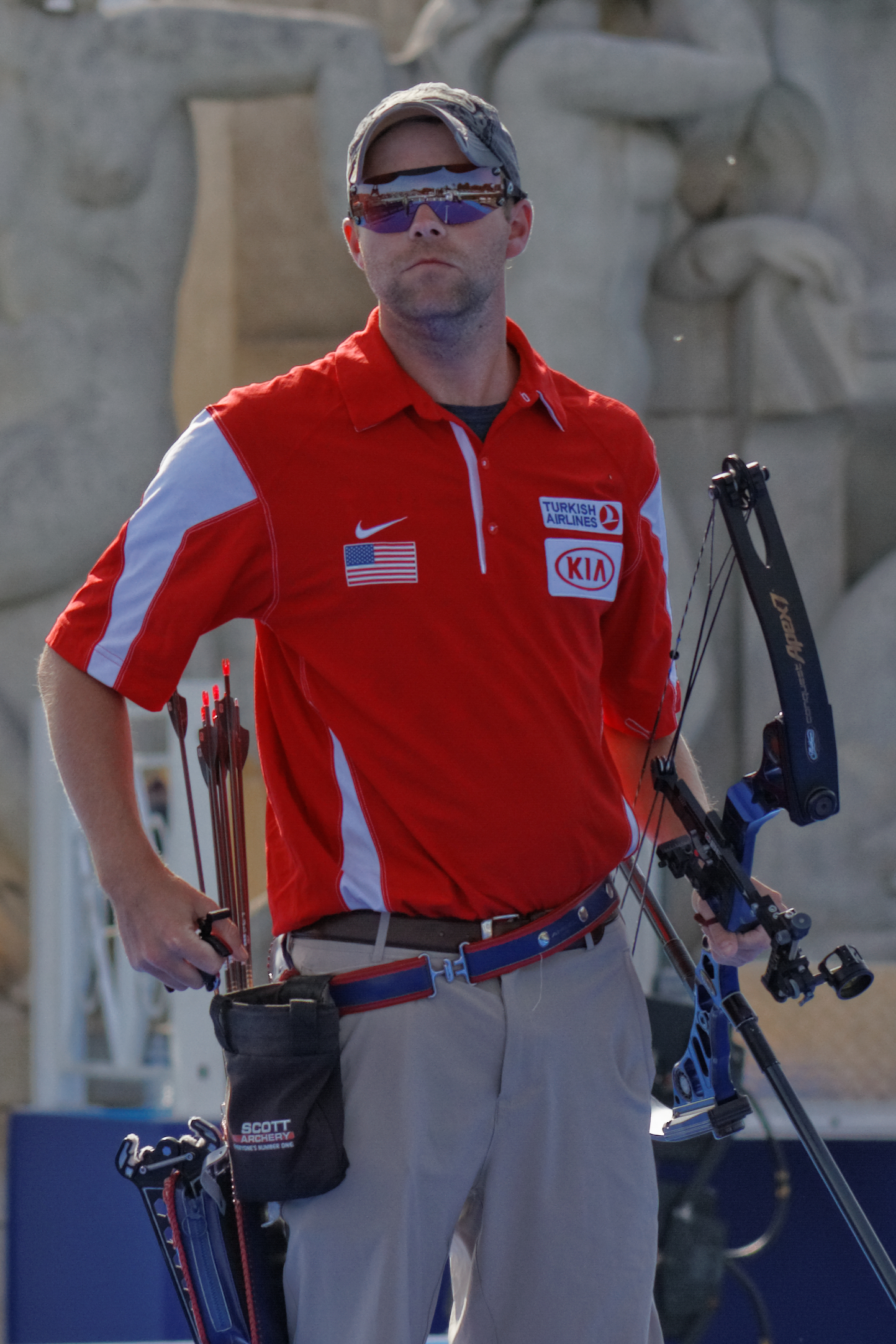 2013 FITA Archery World Cup, Paris, France. Men's individual compound semifinal: Braden Gellenthien vs Sergio Pagni.